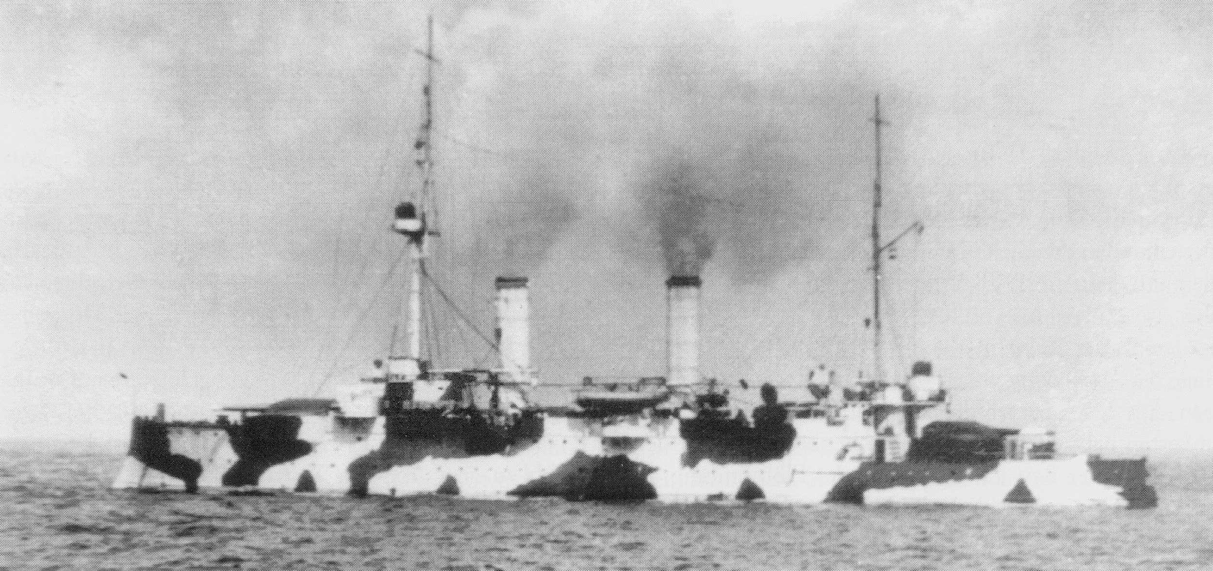 The German coastal defense ship SMS Hagen in 1915.